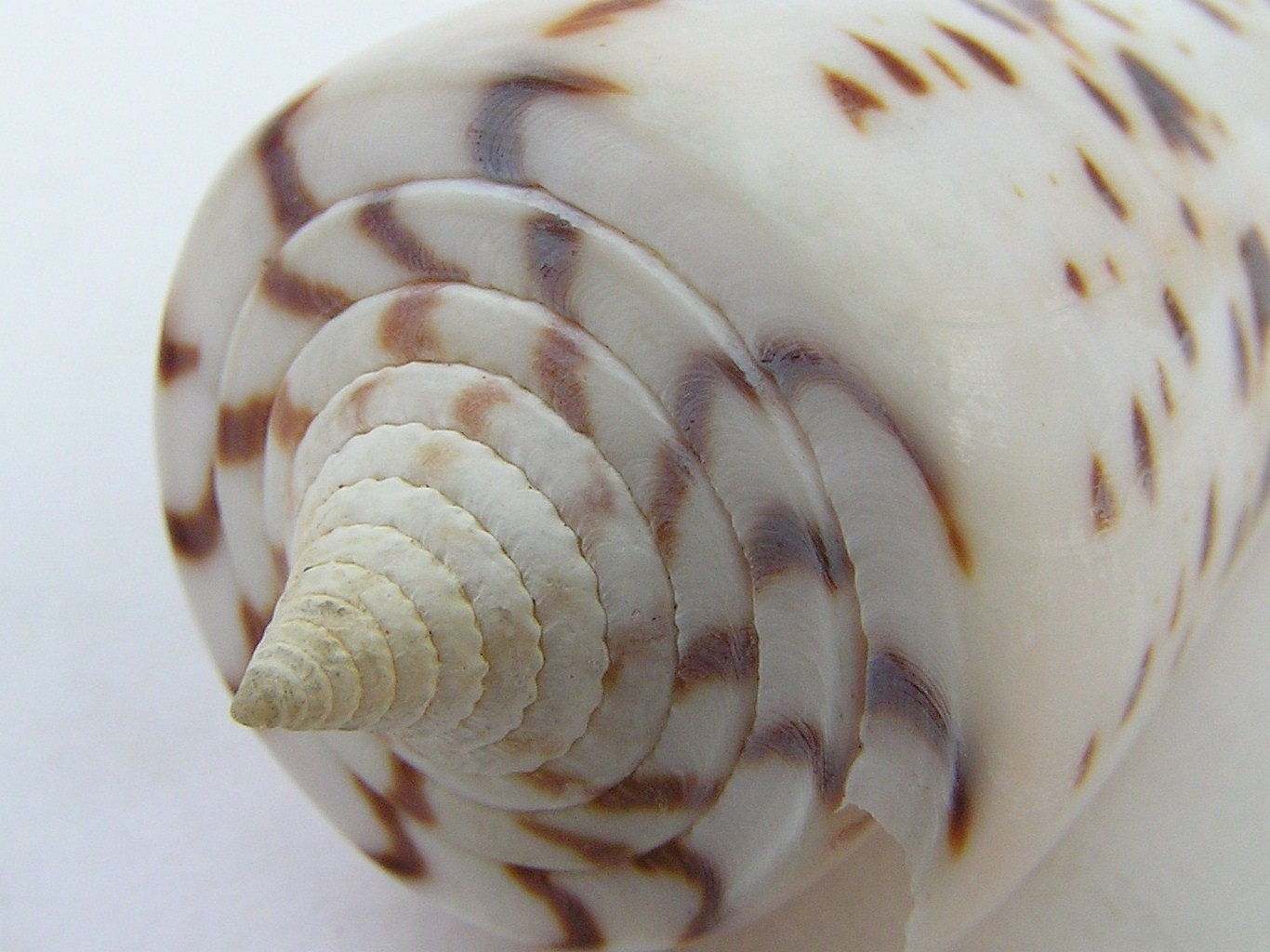 Conus monile Hwass in Bruguière, 1792 ; Andaman Sea